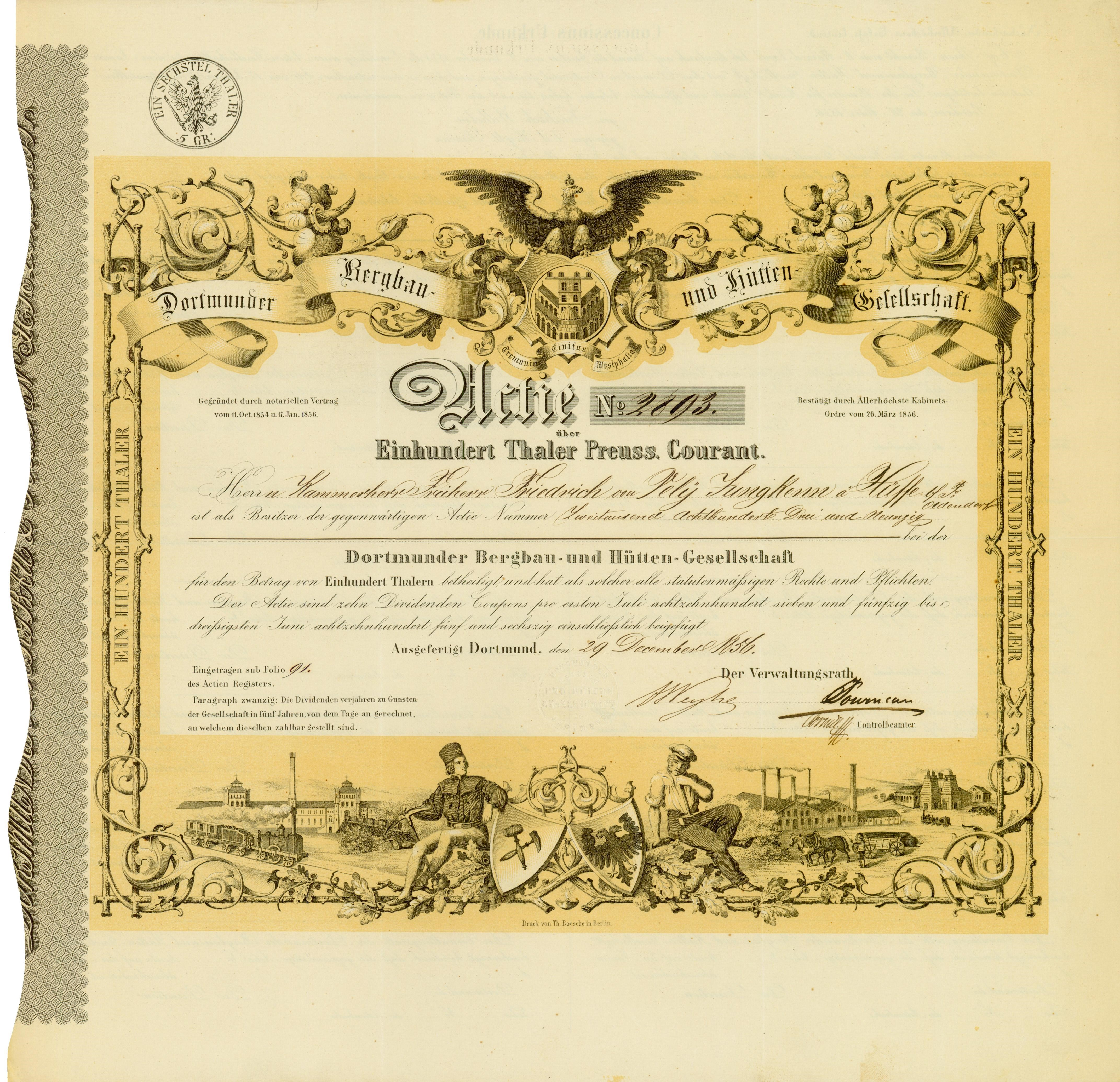 Share of the Dortmunder Bergbau- und Hütten-Gesellschaft, issued 29. December 1856